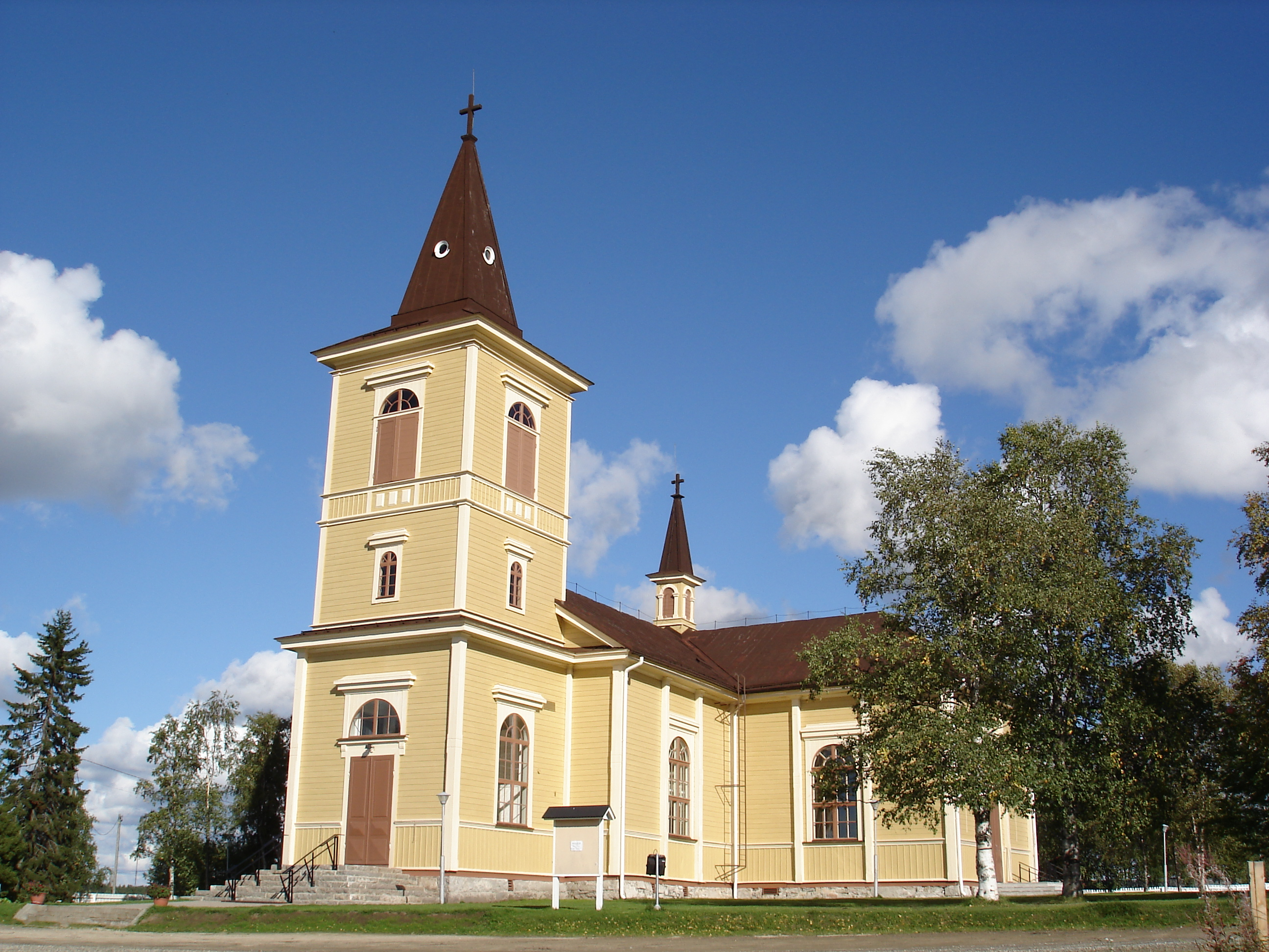 The church of Muonio. The church was designed by architect Charles Bassi and built in 1822. The bellfry was built 1884 and designed by architect Frans Wilhelm Lüchou.